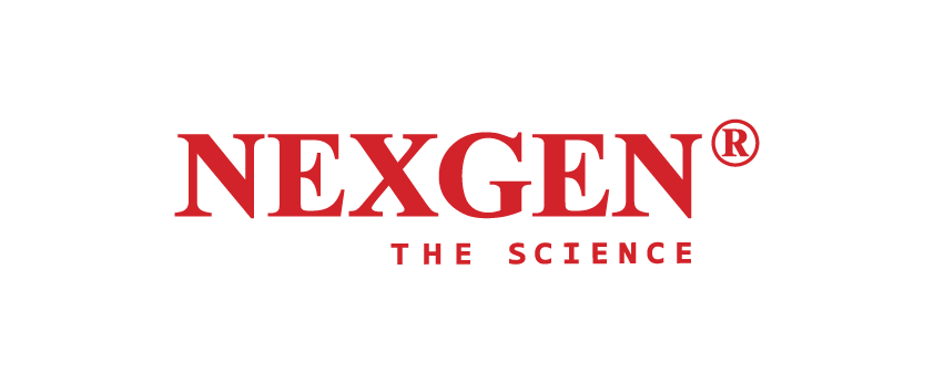 NEXGEN LOGO